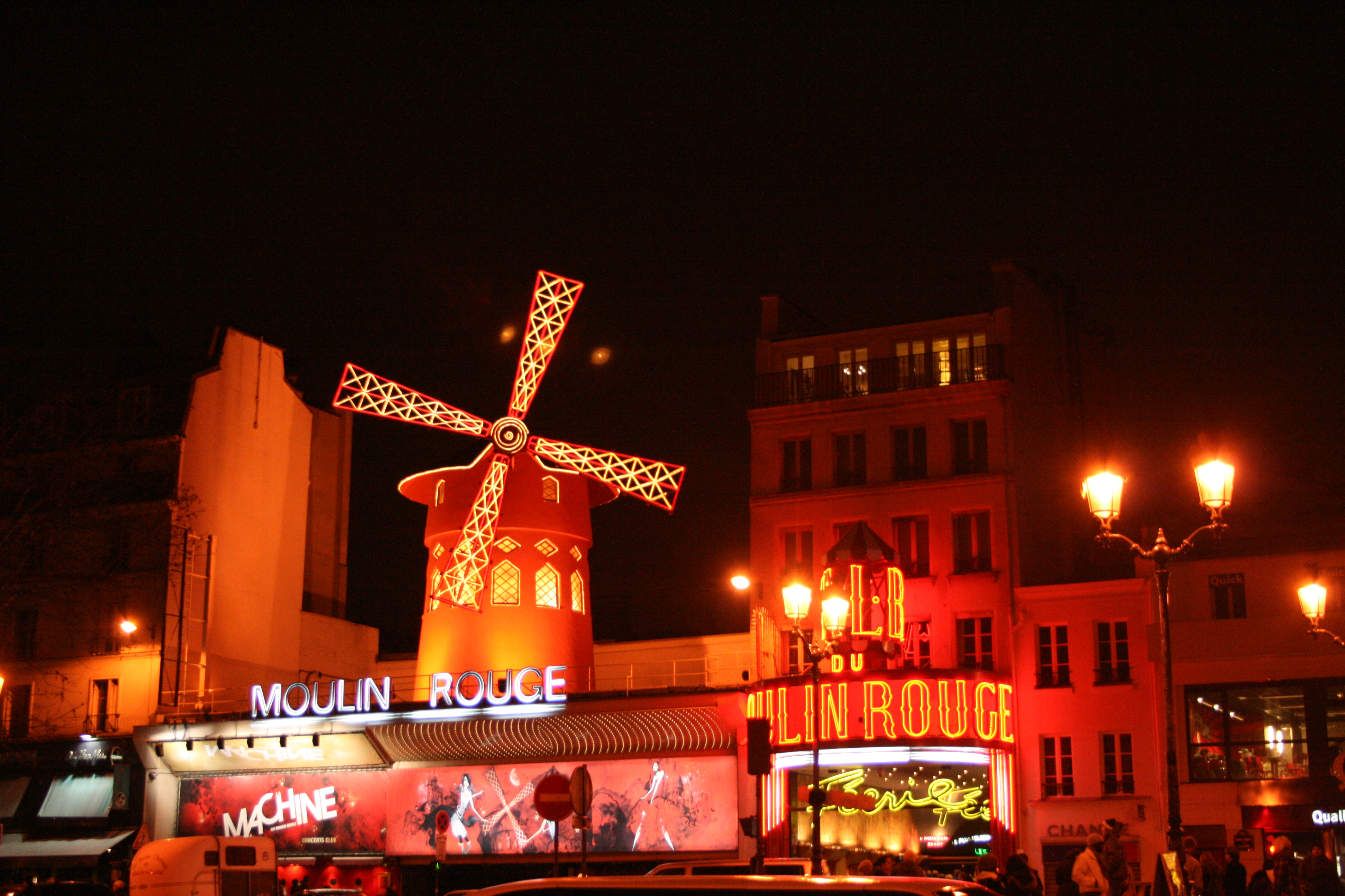 Moulin Rouge, Paris